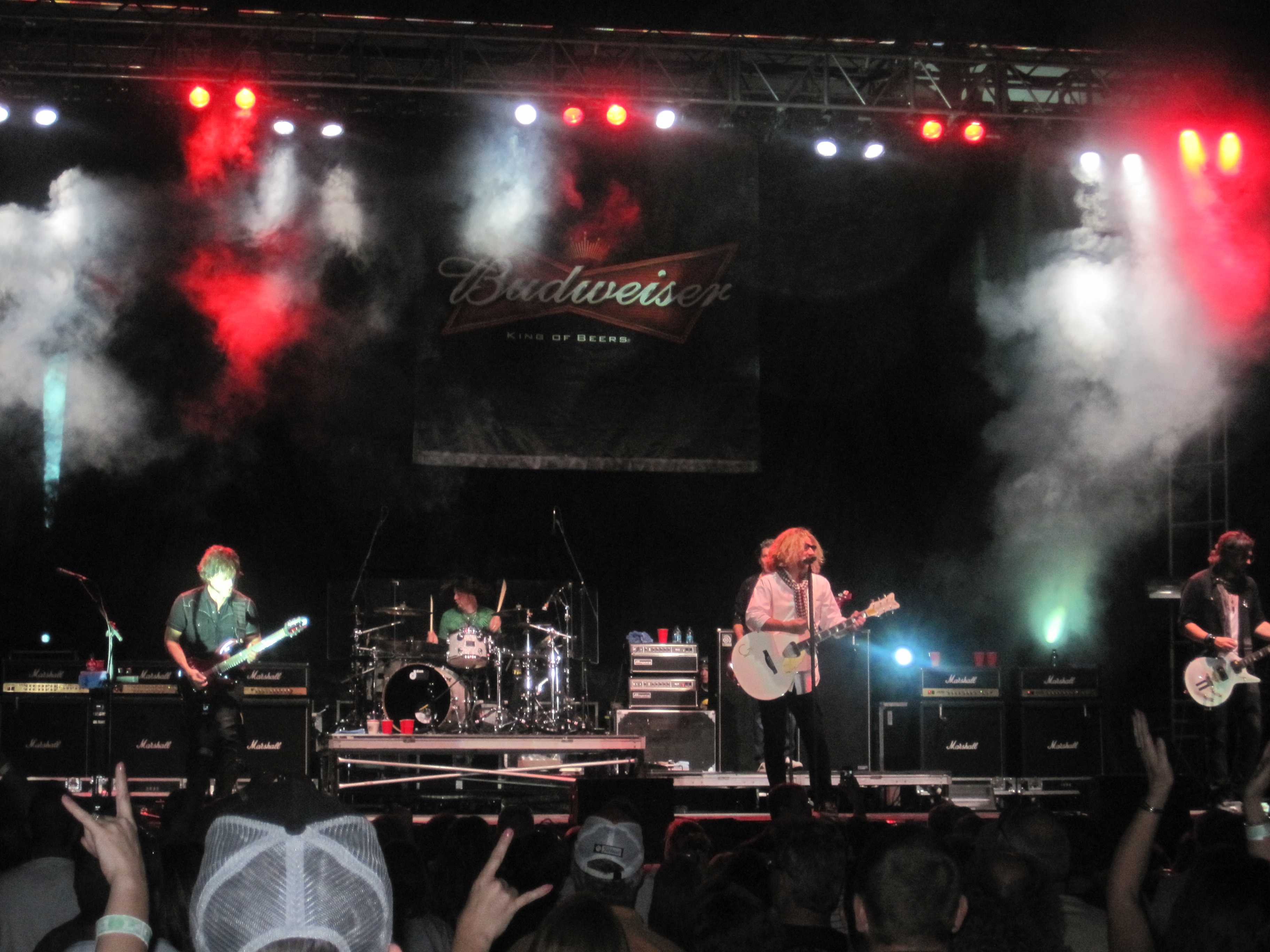 Collective Soul performing at the 2010 Rib America Festival at Military Park in Indianapolis, IN on September 5, 2010.